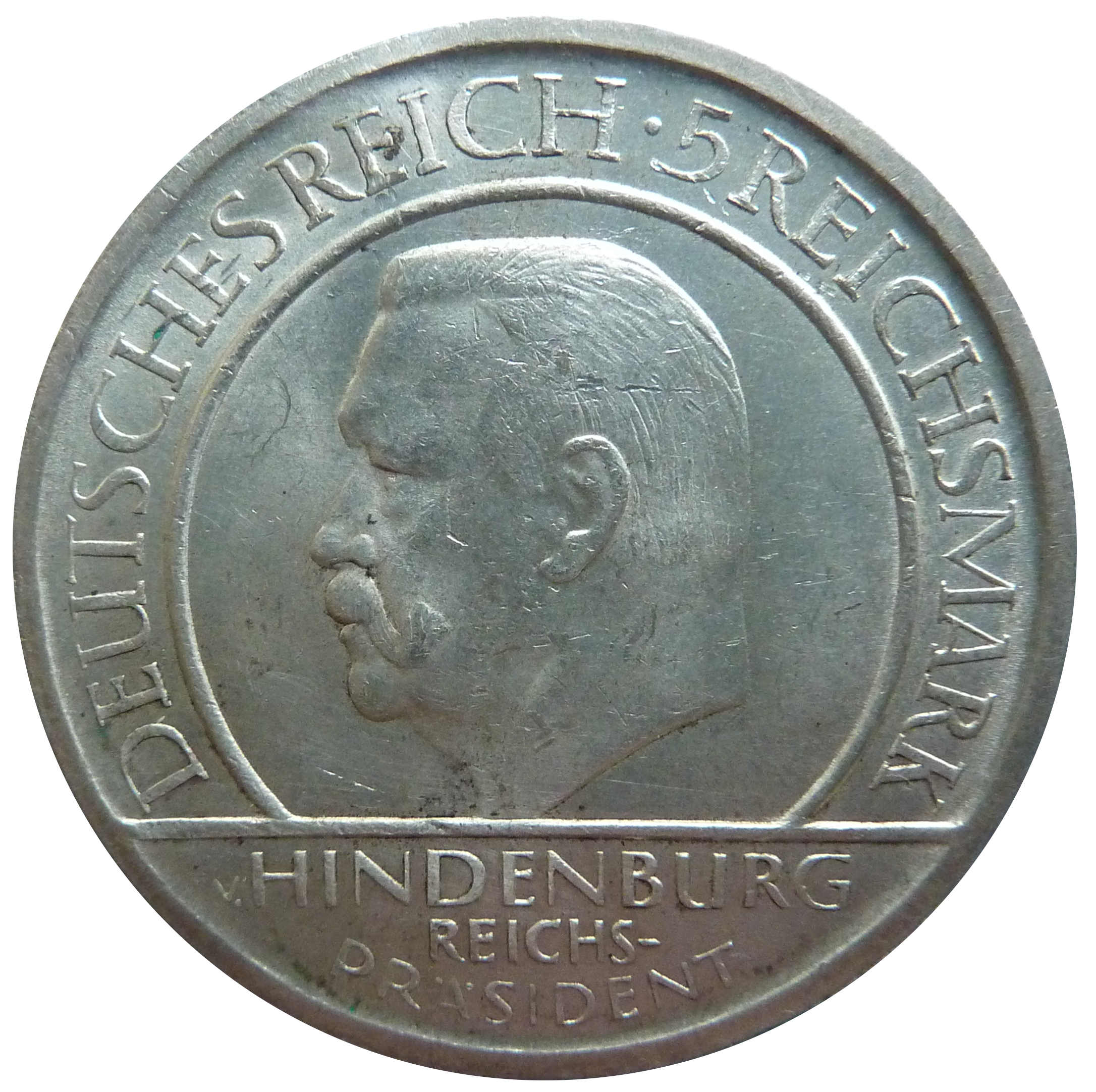 Averse of the 5-reichsmark-coin of the Weimar Republik "Hindenburg"